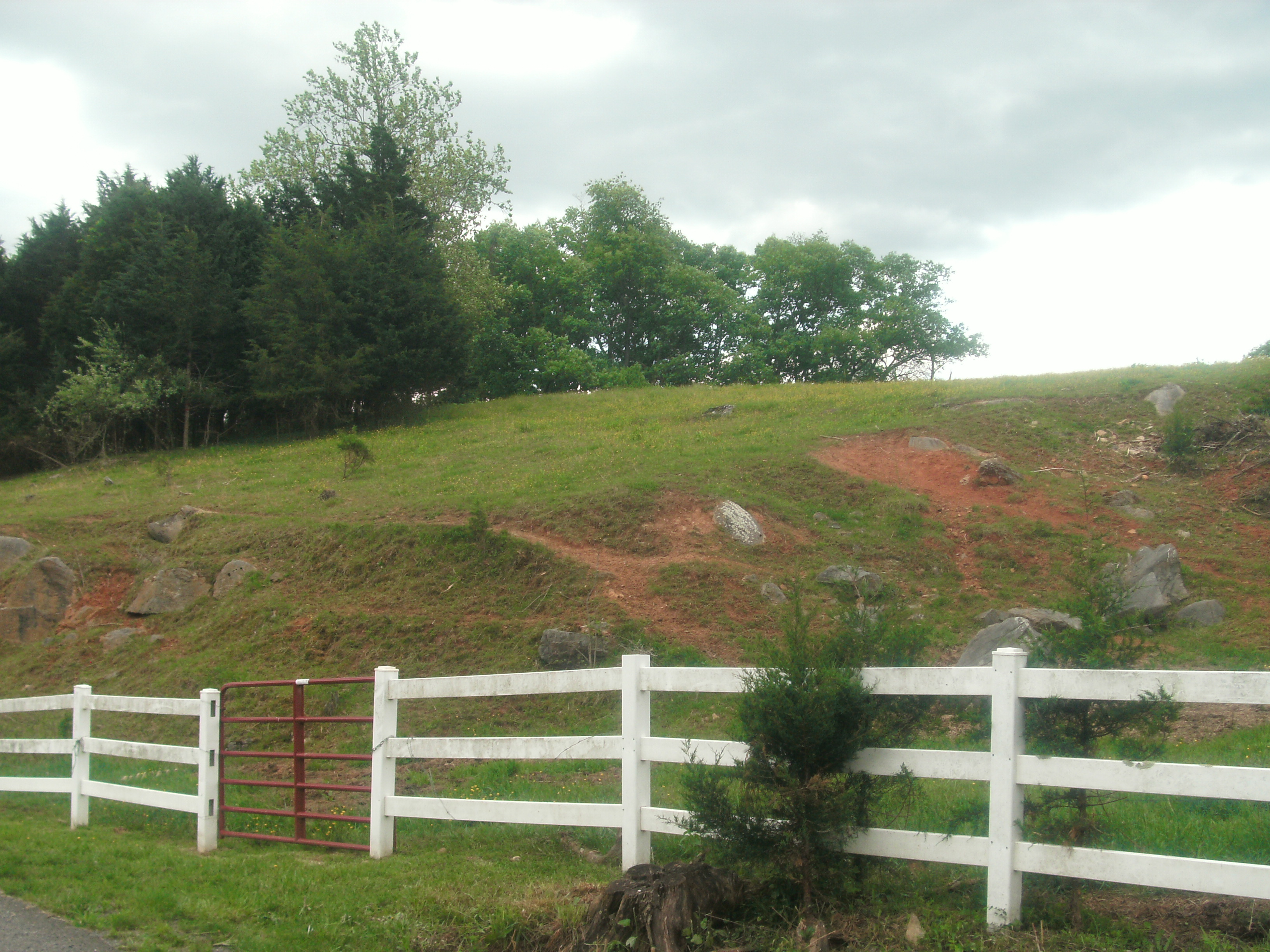 Taken by me in May, 2016 GEDSC DIGITAL CAMERA